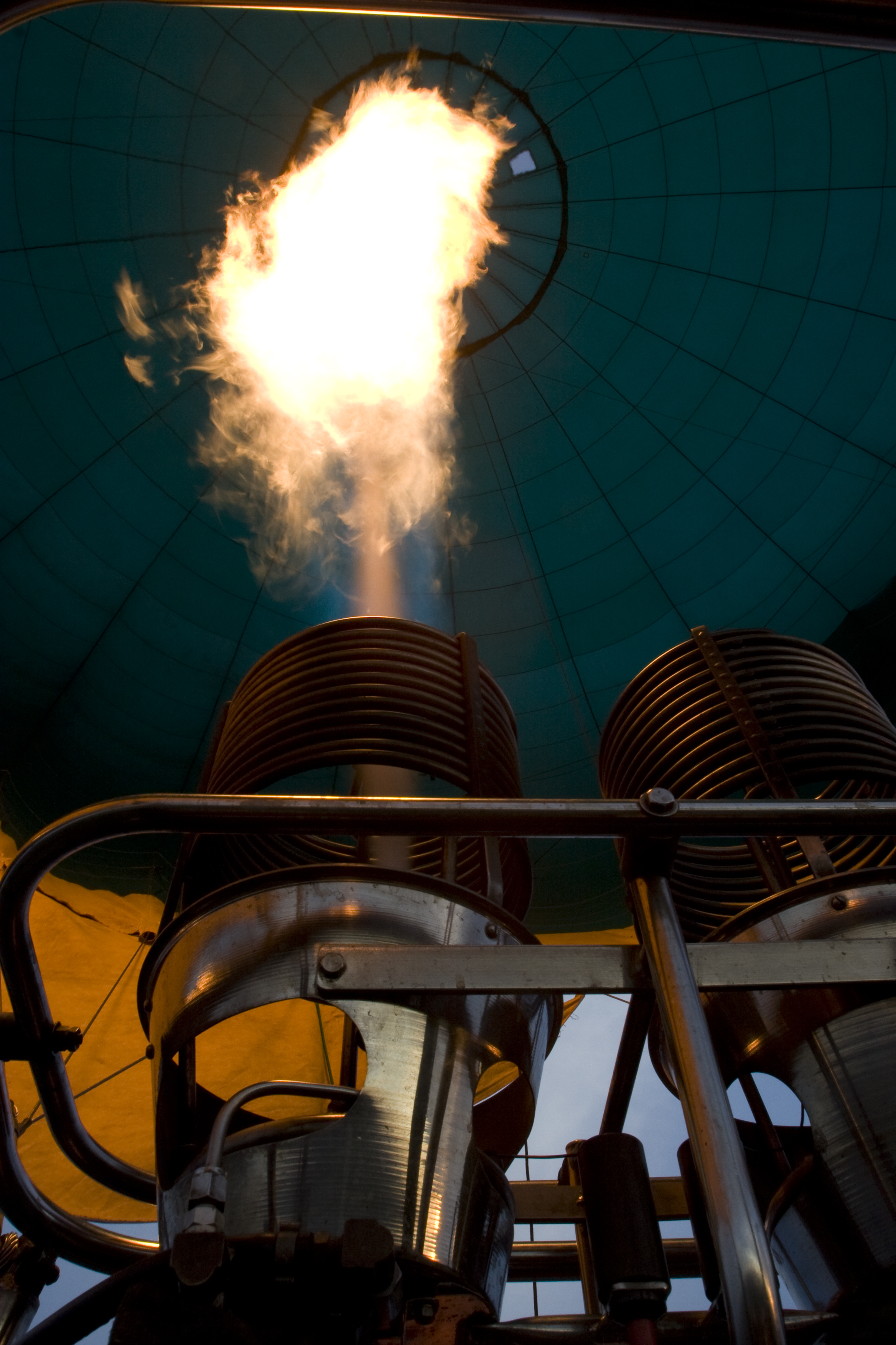 A balloon is fueled by flames